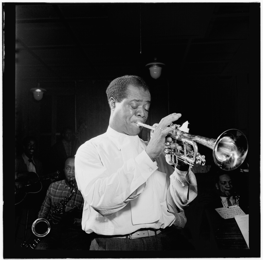 Gottlieb, William P., 1917-, photographer. [Portrait of Louis Armstrong, Carnegie Hall, New York, N.Y., ca. Apr. 1947] 1 negative : b&w ; 2 1/4 x 2 1/4 in. Notes: Gottlieb Collection Assignment No. 010 Reference print available in Music Division, Library of Congress. Purchase William P. Gottlieb Forms part of: William P. Gottlieb Collection (Library of Congress). Subjects: Armstrong, Louis, 1900-1971 Jazz musicians--1940-1950. Trumpet players--1940-1950. Carnegie Hall Format: Portrait photographs--1940-1950. Film negatives--1940-1950. Rights Info: Mr. Gottlieb has dedicated these works to the public domain, but rights of privacy and publicity may apply. Repository: (negative) Library of Congress, Prints & Photographs Division, Washington D.C. 20540 USA, (reference print) Library of Congress, Music Division, Washington D.C. 20540 USA, Part Of: William P. Gottlieb Collection (DLC) 99-401005 General information about the Gottlieb Collection is available at Persistent URL: Call Number: LC-GLB23- 0021 This work is from the William P. Gottlieb collection at the Library of Congress. Rights and restrictions.In accordance with the wishes of William Gottlieb, the photographs in this collection entered into the public domain on February 16, 2010.